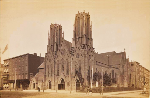 Calvary Church, Gramercy Park, New York